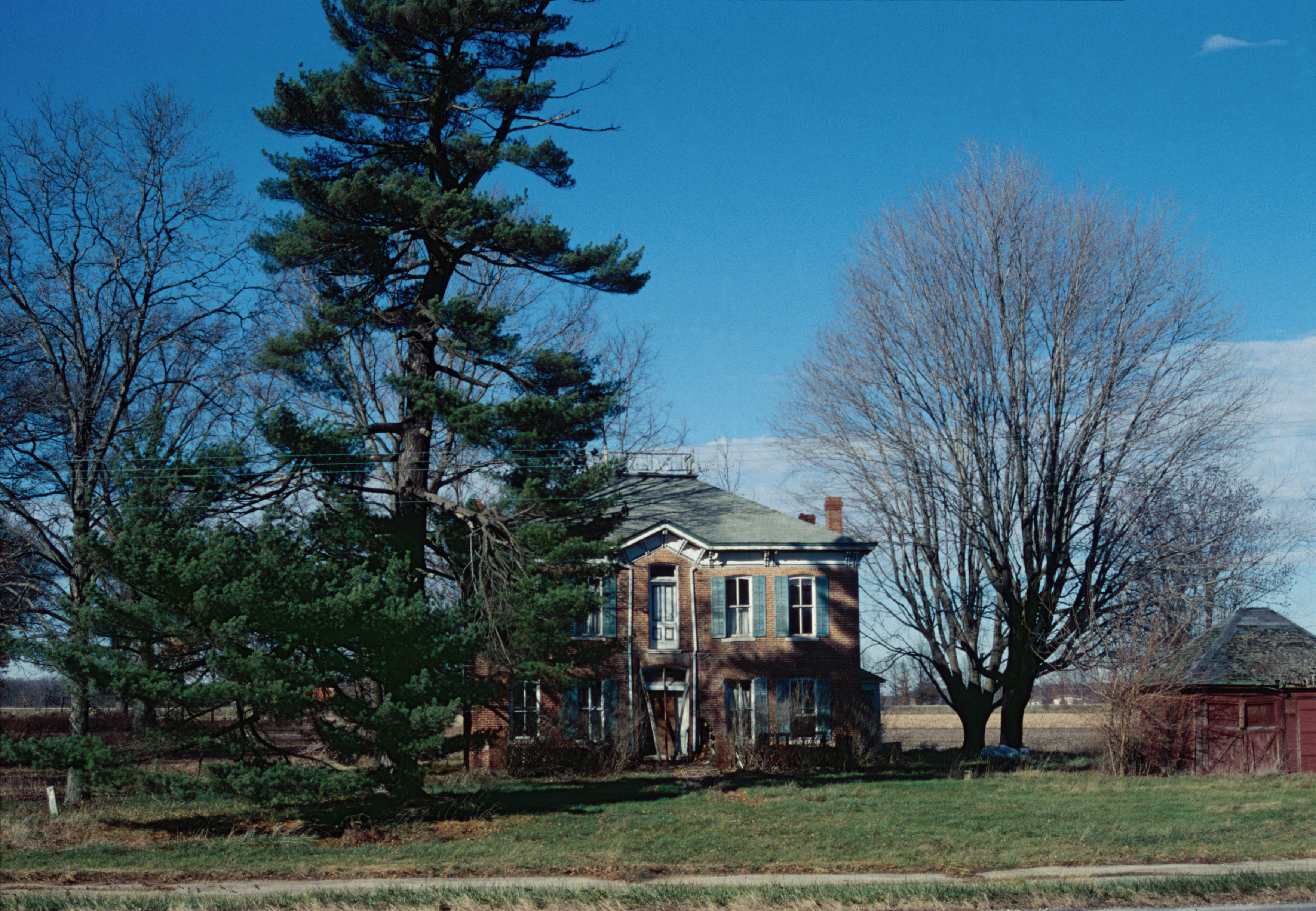 Front of the house at the Thornton Ward Estate, located at 1387 U.S. Route 40 near Toledo in Cumberland County, Illinois, United States. Built in 1875, it is listed on the National Register of Historic Places.